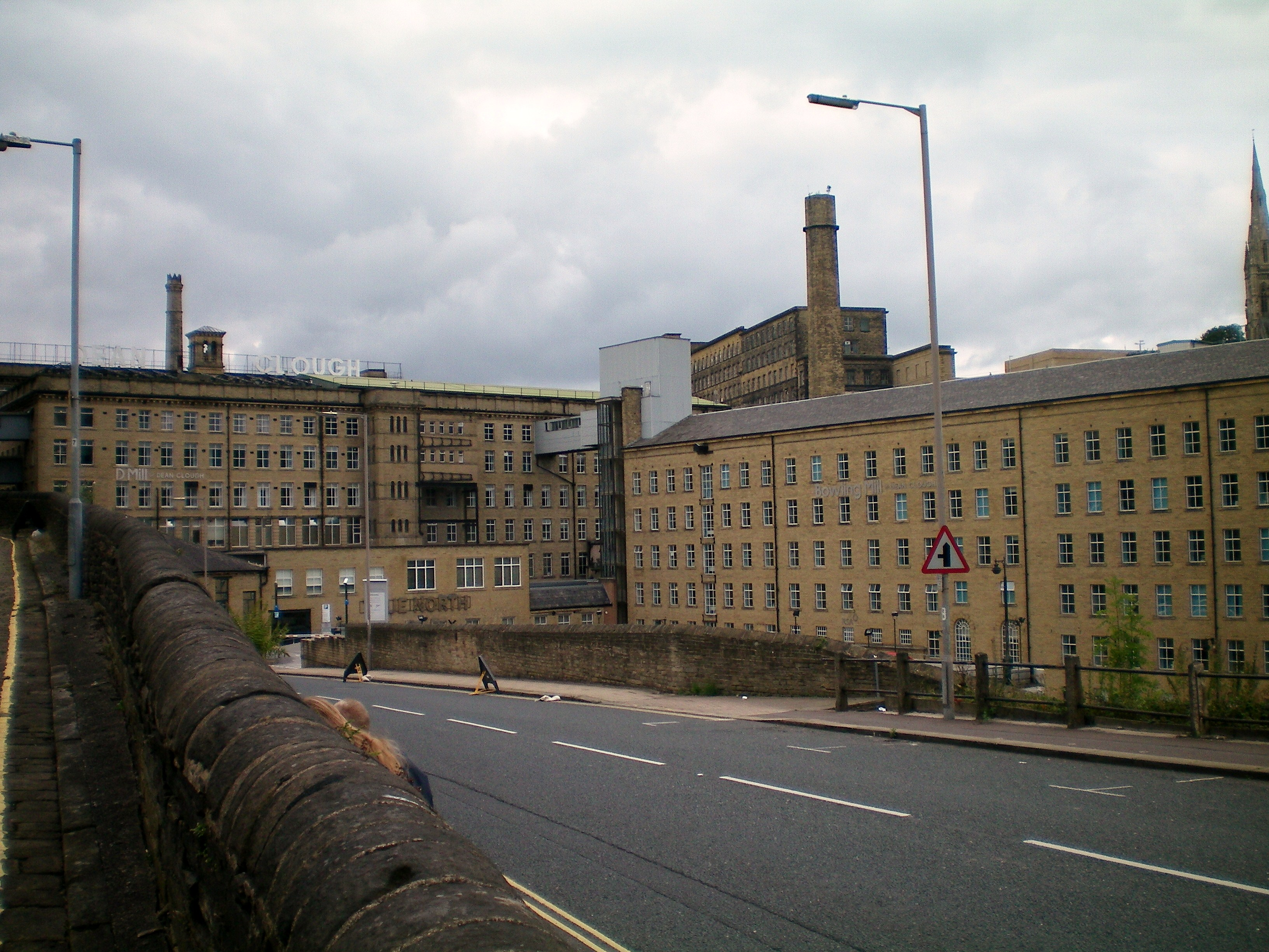 Dean Clough former carpet mills at Halifax, West Yorkshire, England.